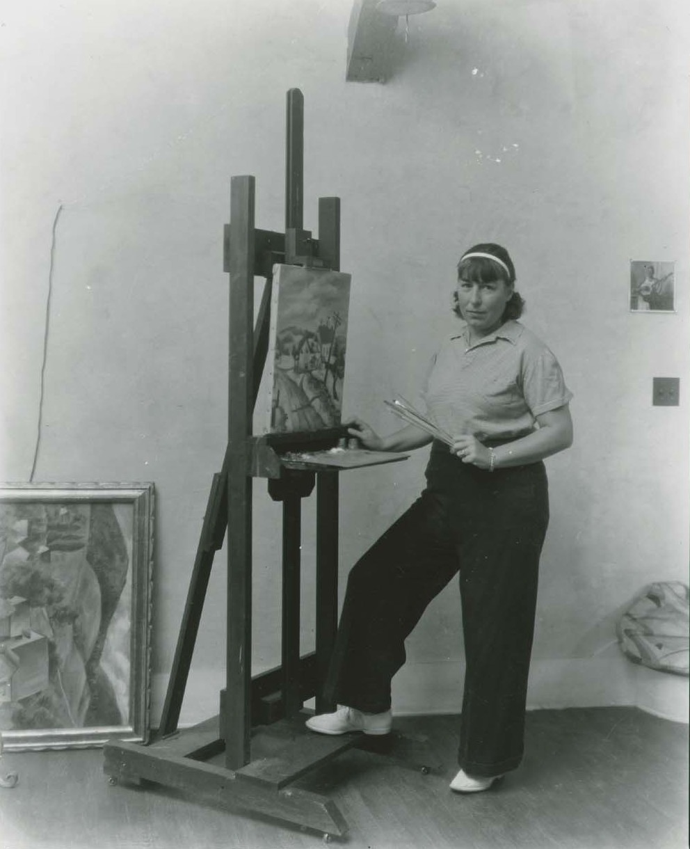 Description: Nan Mason was a member of the Woodstock Artist Colony but spent time in Carmel, California as well. As a painter, she was surrounded by her contemporaries and learned well from their interactions. Creator/Photographer: Peter A. Juley & Son Medium: Black and white photographic print Dimensions: 8 in x 10 in Culture: American Date: 1934 Persistent URL: [1] Repository: Archives of American Art Native nameArchives of American ArtParent institutionSmithsonian Institution LocationWashington, D.C.Coordinates38° 53′ 52.44″ N, 77° 01′ 21.72″ W Established1954 Web page control : Q2860568 VIAF: 151134814 ISNI: 0000 0004 5897 2996 LCCN: n79065944 NLA: 35007823 GND: 1023549-8 WorldCat institution QS:P195,Q2860568 Collection: Peter A. Juley & Son Collection - The Peter A. Juley & Son Collection is comprised of 127,000 black-and-white photographic negatives documenting the works of more than 11,000 American artists. Throughout its long history, from 1896 to 1975, the Juley firm served as the largest and most respected fine arts photography firm in New York. The Juley Collection, acquired by the Smithsonian American Art Museum in 1975, constitutes a unique visual record of American art sometimes providing the only photographic documentation of altered, damaged, or lost works. Included in the collection are over 4,700 photographic portraits of artists. Accession number: J0109892